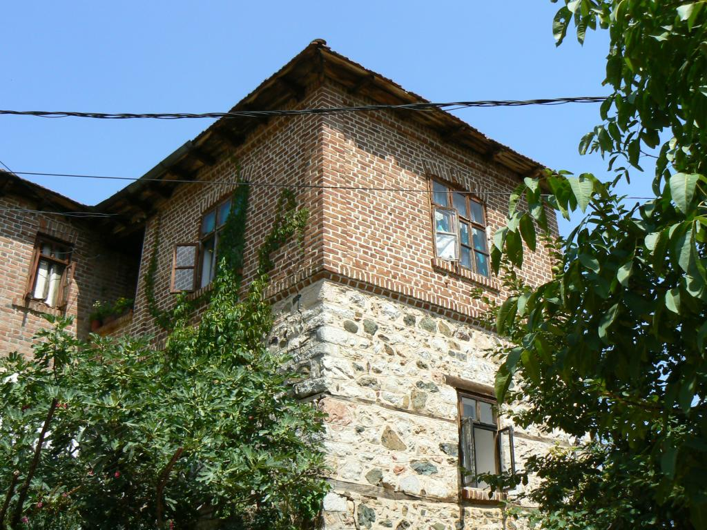 Old house in Vevcani, Republic of Macedonia